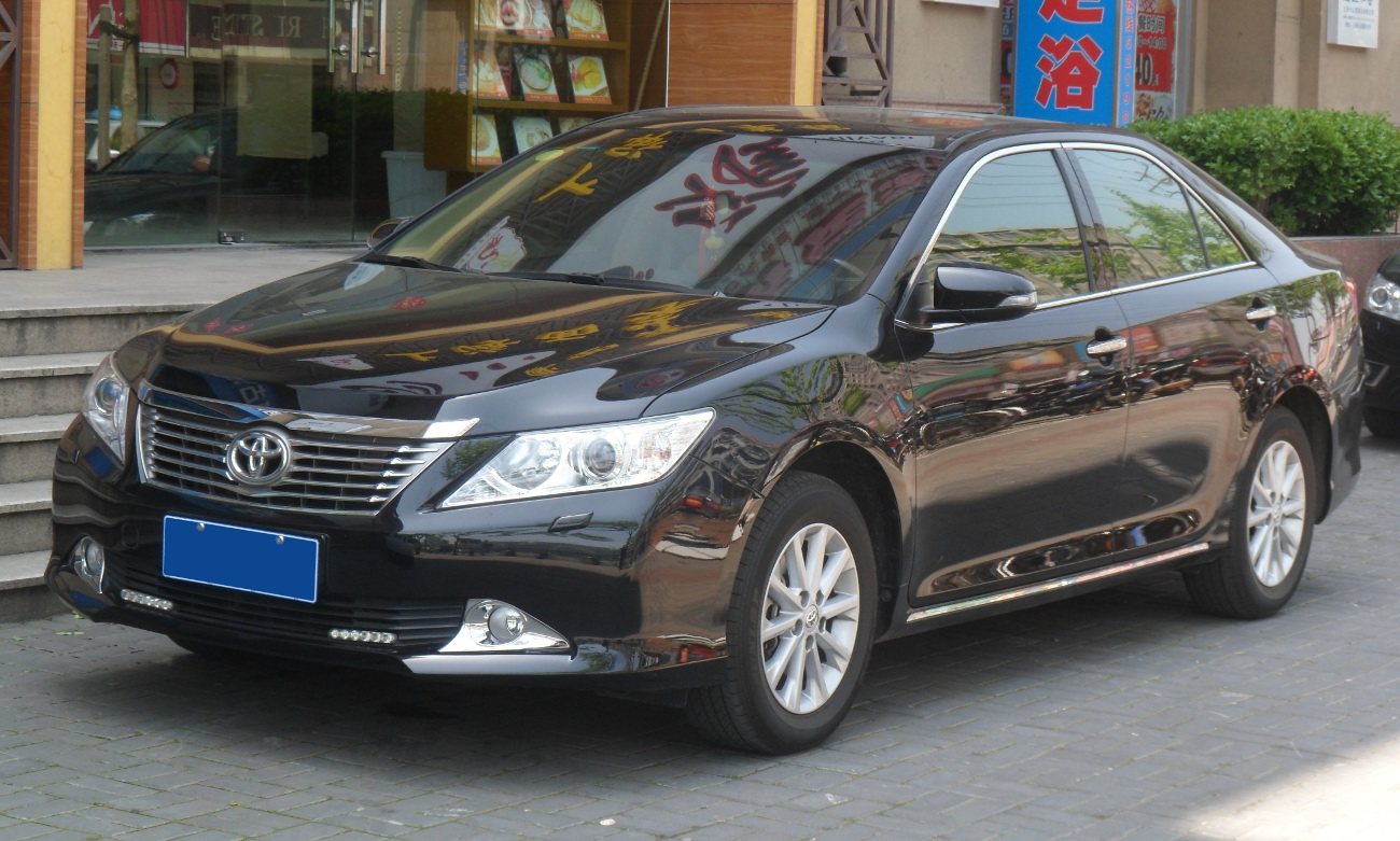 Toyota Camry XV50 photographed in Shanghai, China.